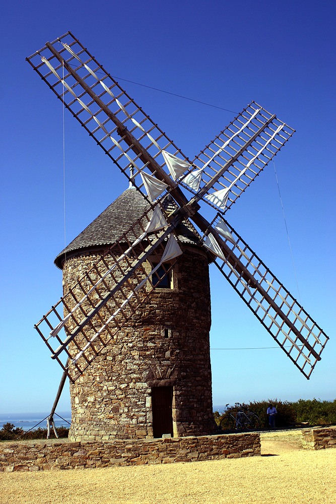 Moulin de craca is a windmill in Plouézec, Brittany, France.